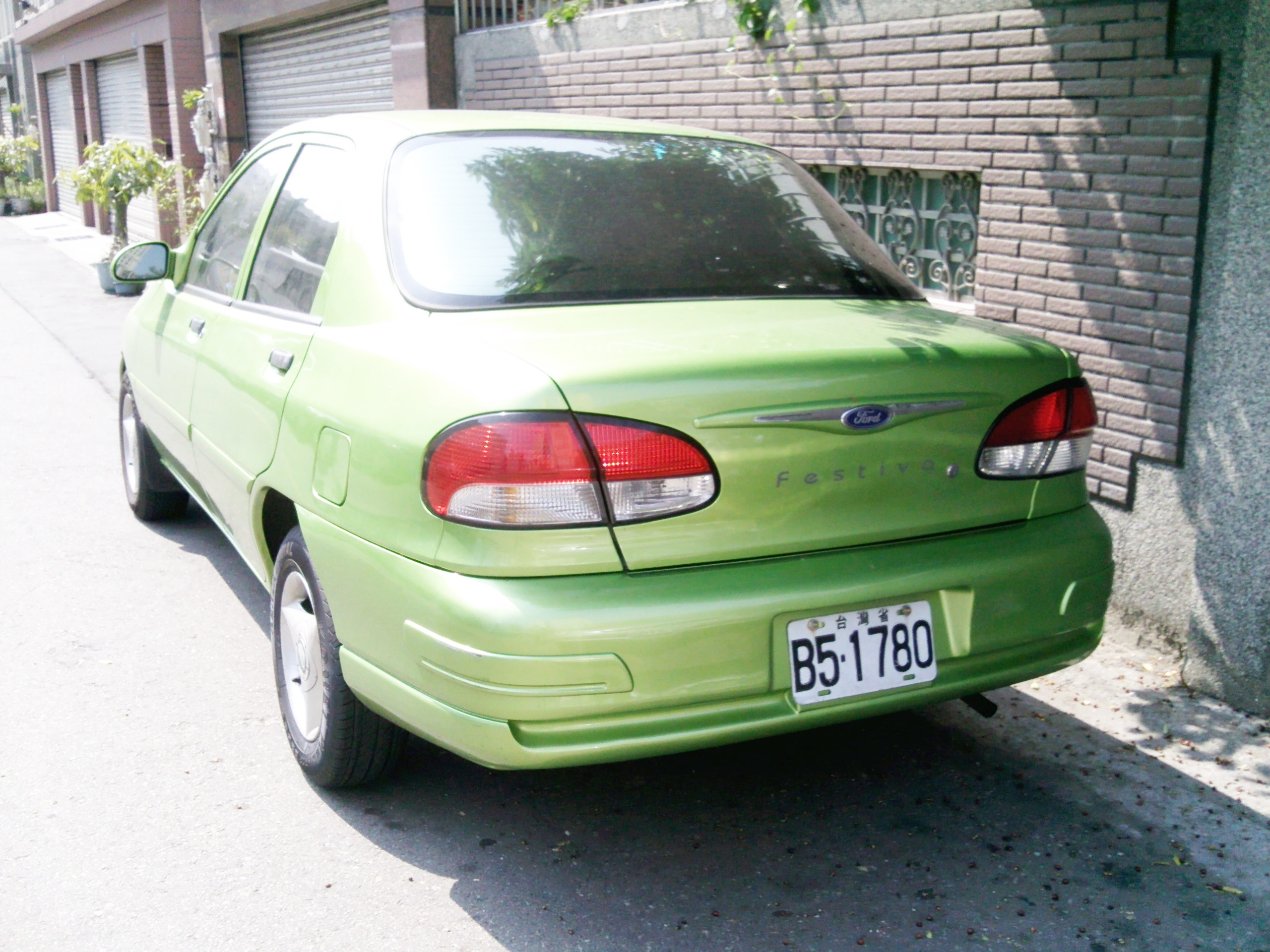 Rear view of Ford Festiva 2nd generation, photoed in Taichung, Taiwan